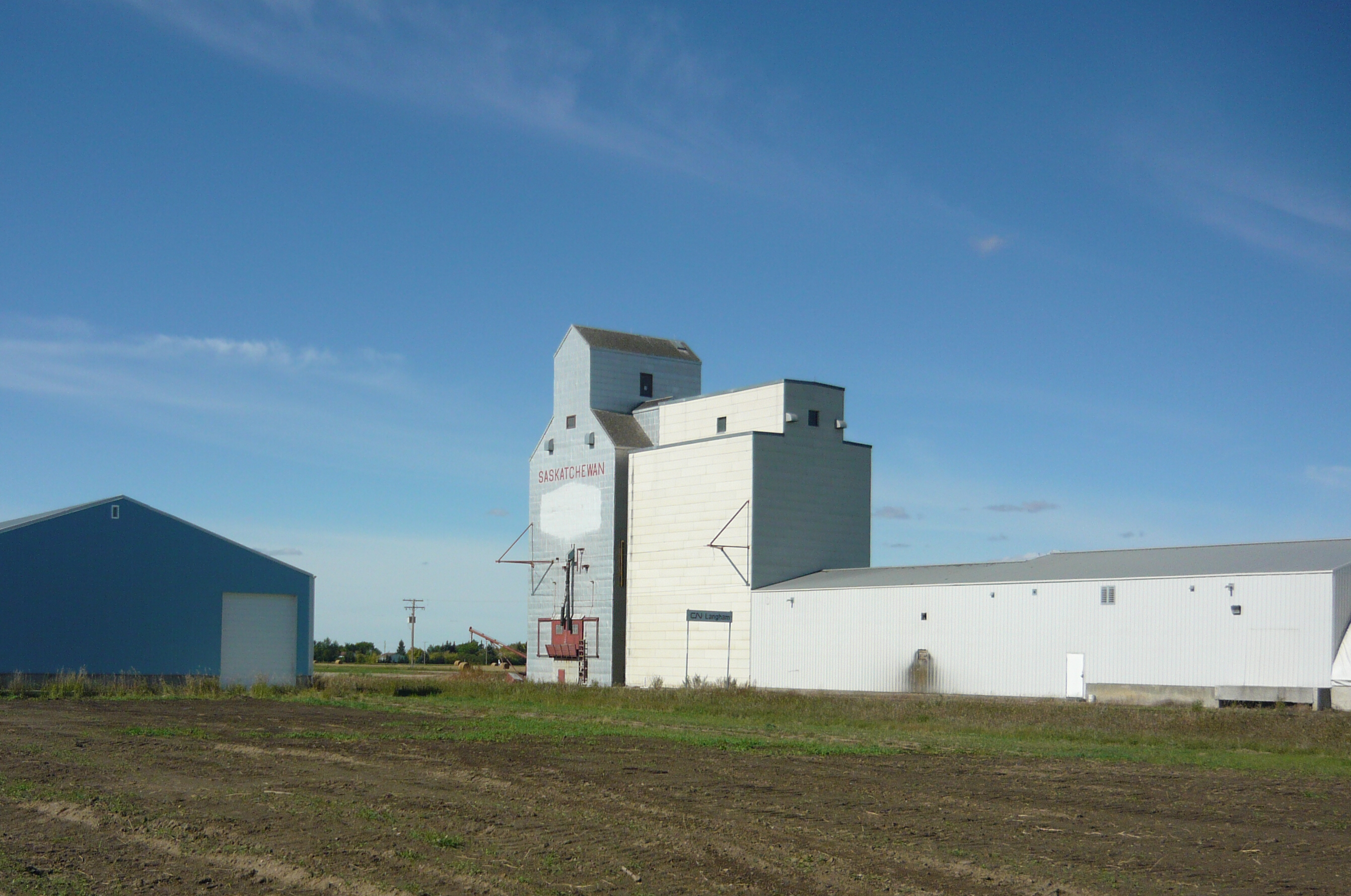 Grain elevator in Langham, Saskatchewan, Canada. Photo taken from Railway Street, between Third Avenue and Fourth Avenue, looking northwestward.